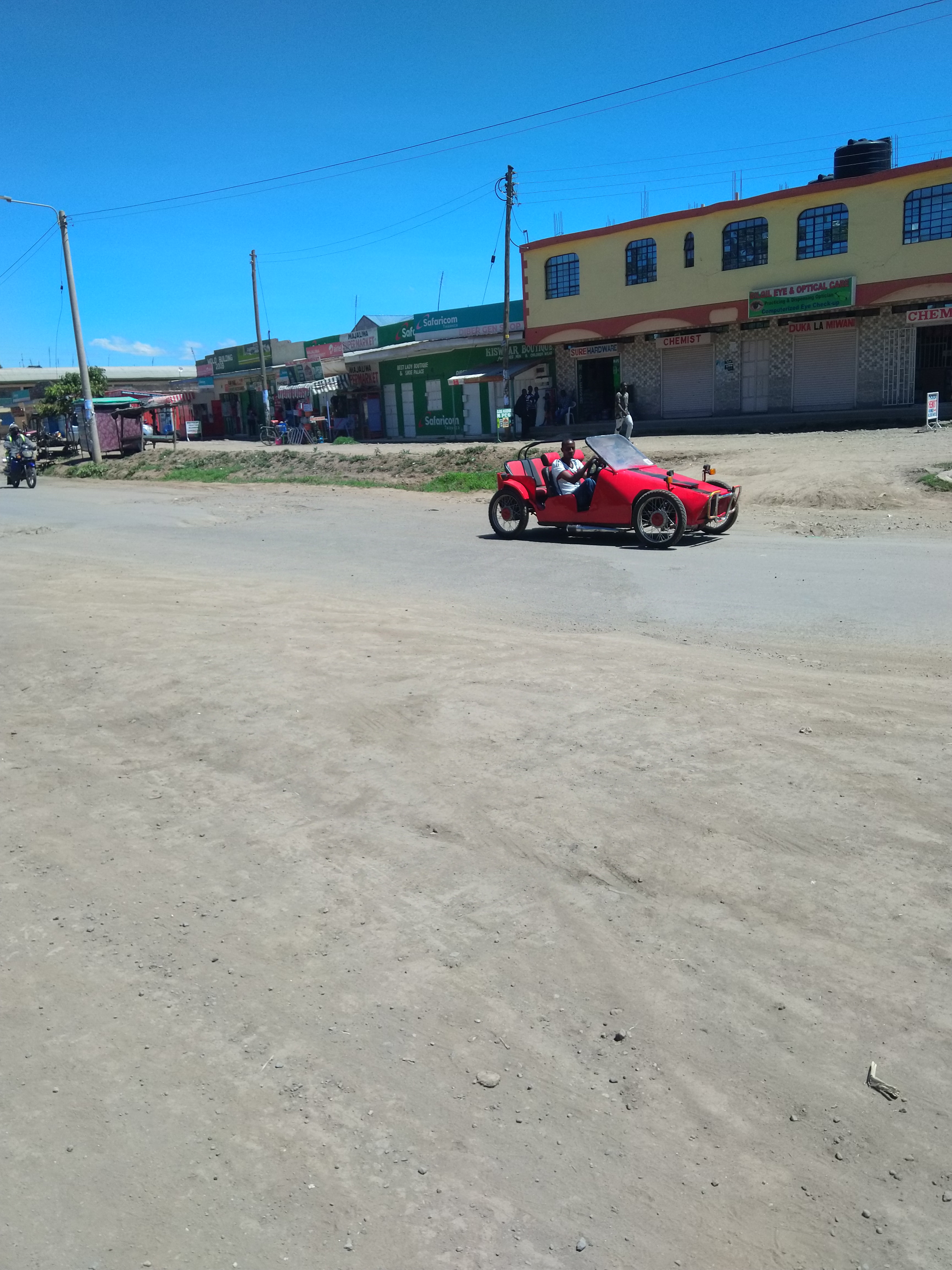 This is an image with the theme "Africa on the Move or Transport" from: Kenya